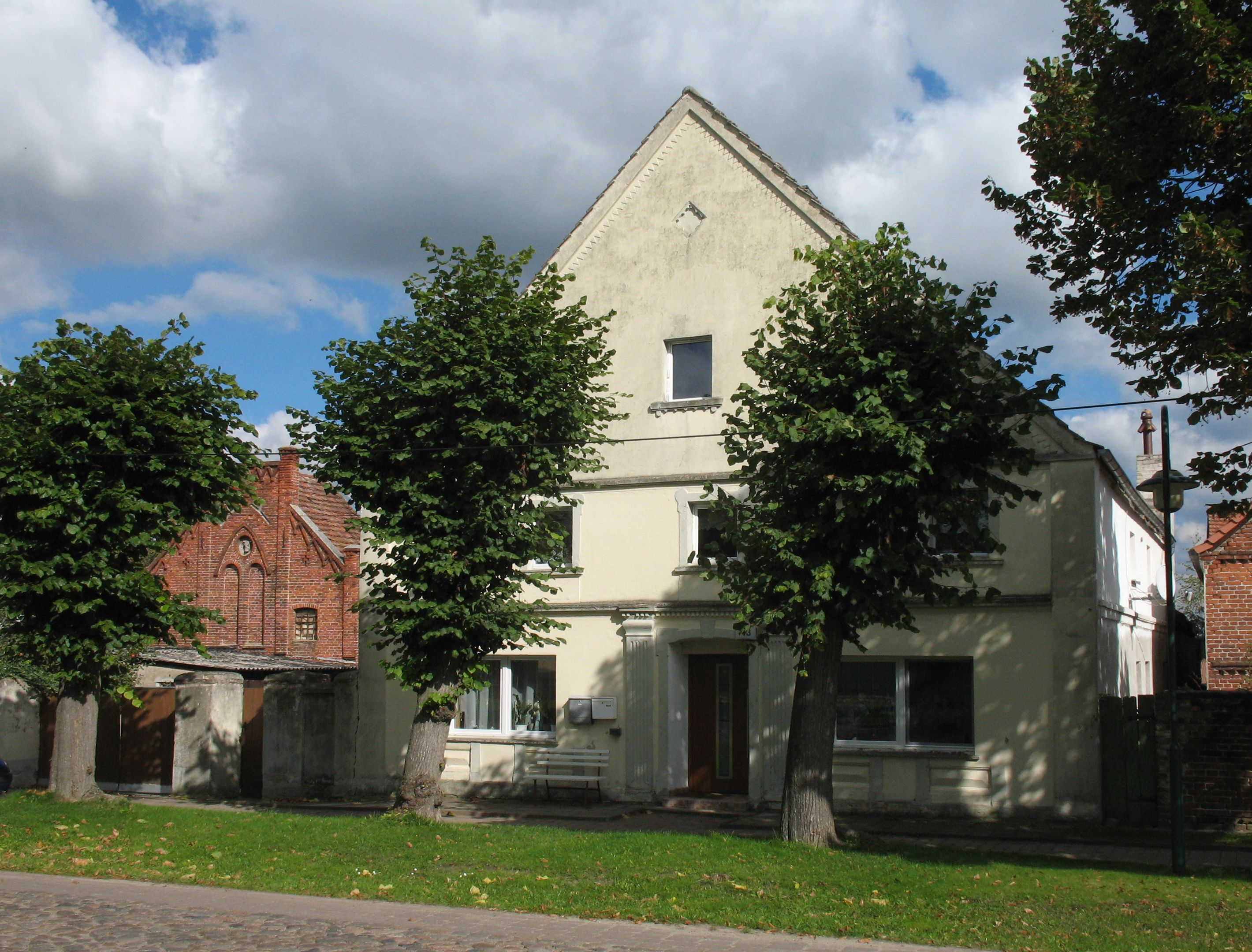 Building in Fehrbellin-Tarmow in Brandenburg, Germany